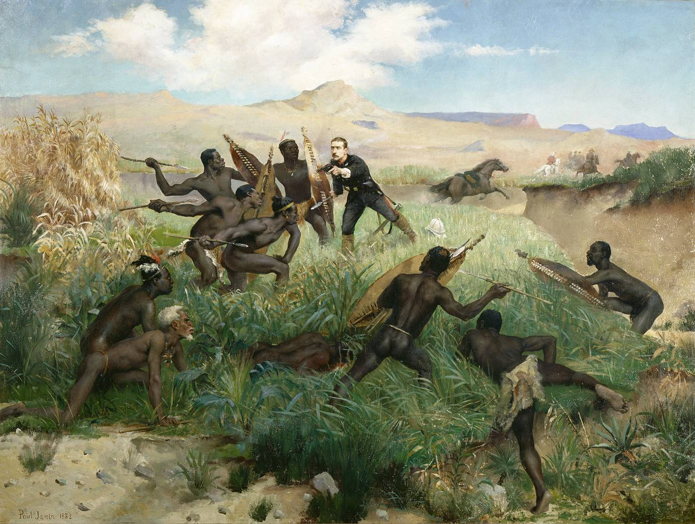 Death of the Prince Imperial on 1 June 1879 during the Anglo-Zulu War.